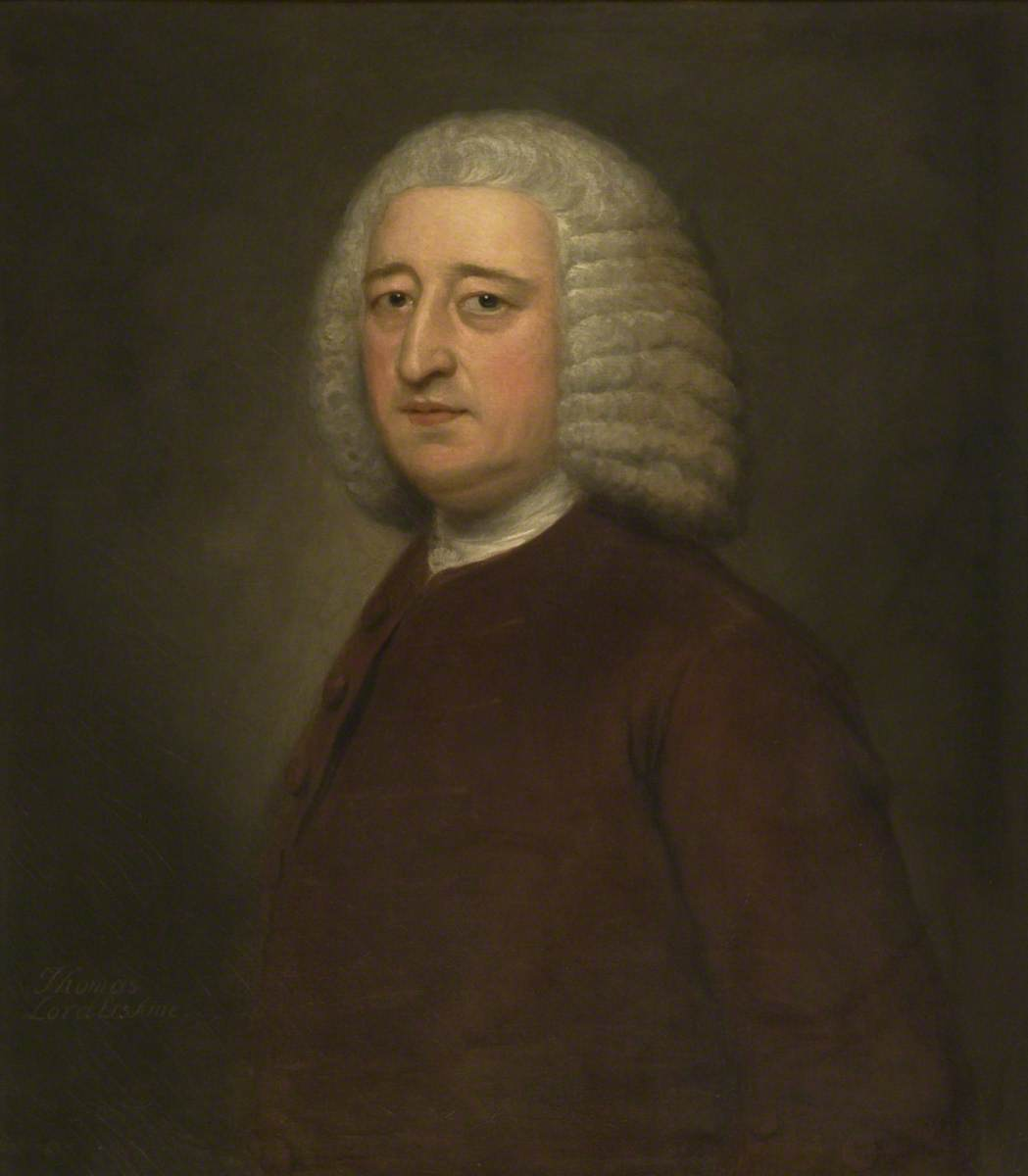 Thomas, Lord Erskine, (d.1766), half-length, in a plum-coloured waistcoat & white cravat, identifying inscription; [Label on reverse: Died without issue, nearest male heir was eldest son of his sister Lady Francis Erskine, who inherited estate & title when restored].